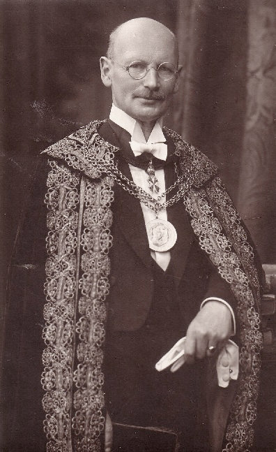 Ernst von Dobschütz (1870-1934), German theologian, wearing the robe and chain of the Rector of the University of Halle and the ribbon and cross of a Knight of Justice of the Order of Saint John (Bailiwick of Brandenburg)